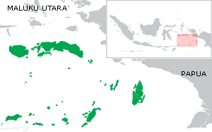 Location of Maluku Province, Indonesia